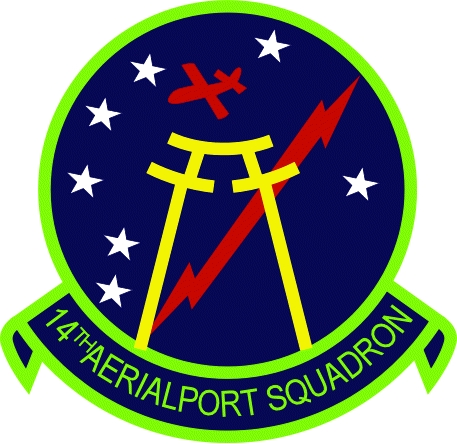 Unit emblem for 14th Aerialport Squadron Cam Ranh Air Base, RVN